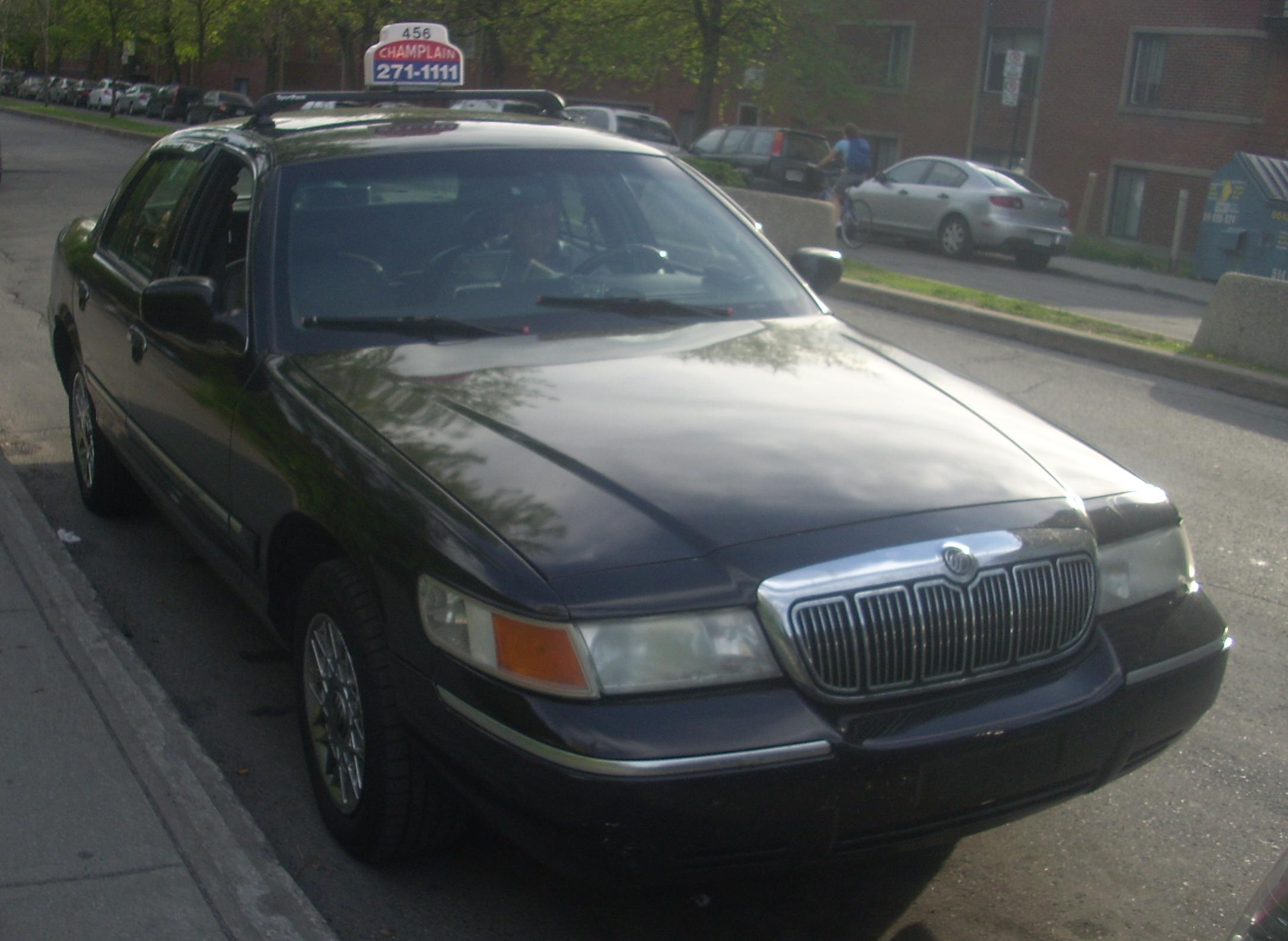 1998-2002 Mercury Grand Marquis photographed in Montreal, Quebec, Canada.